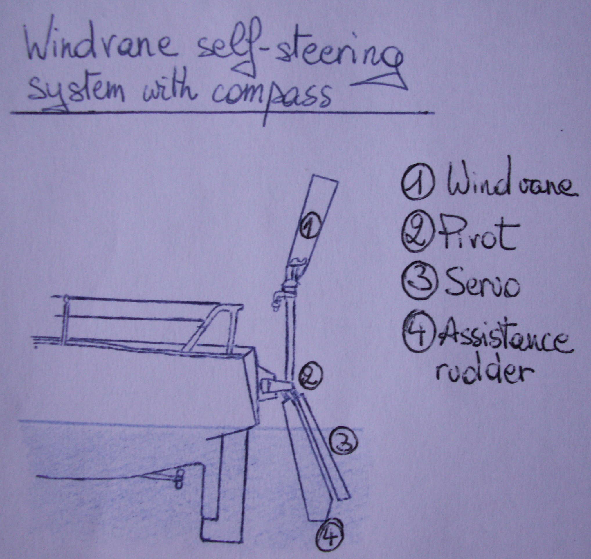 A hand-drawn picture of a windvane self-steering system, drawn after a model from within the book "The Sailors Handbook" by Halsey C. Herreshoff.